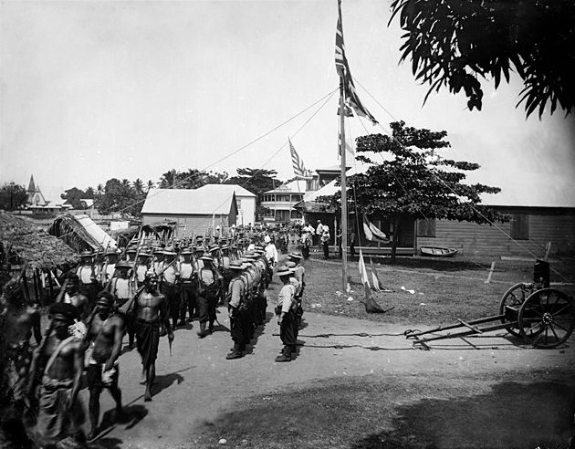 Escorting the Samoan King, Malietoa Tanumafili I